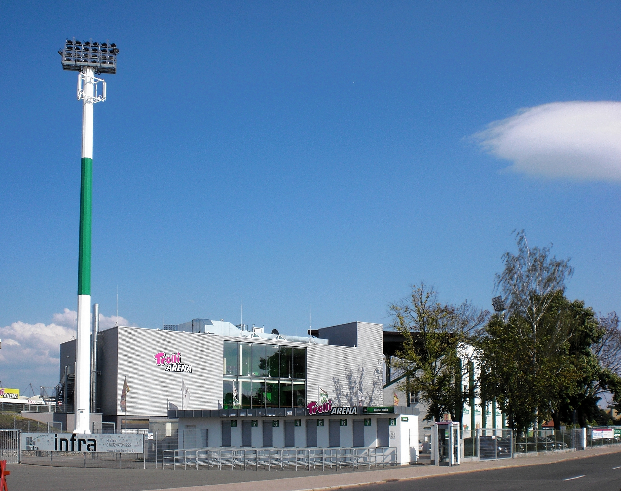 Fürth, Trolli Arena, from outside